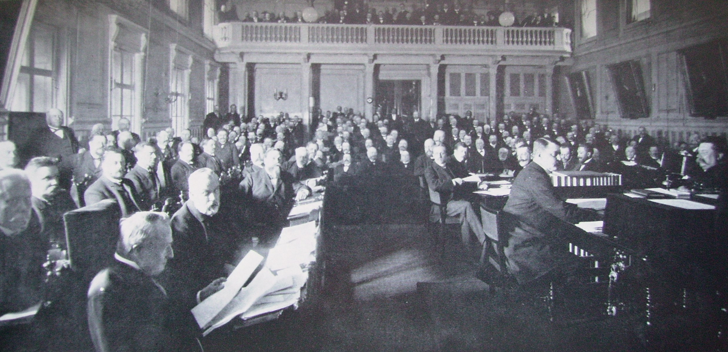 Picture of Riksdagen in Sweden